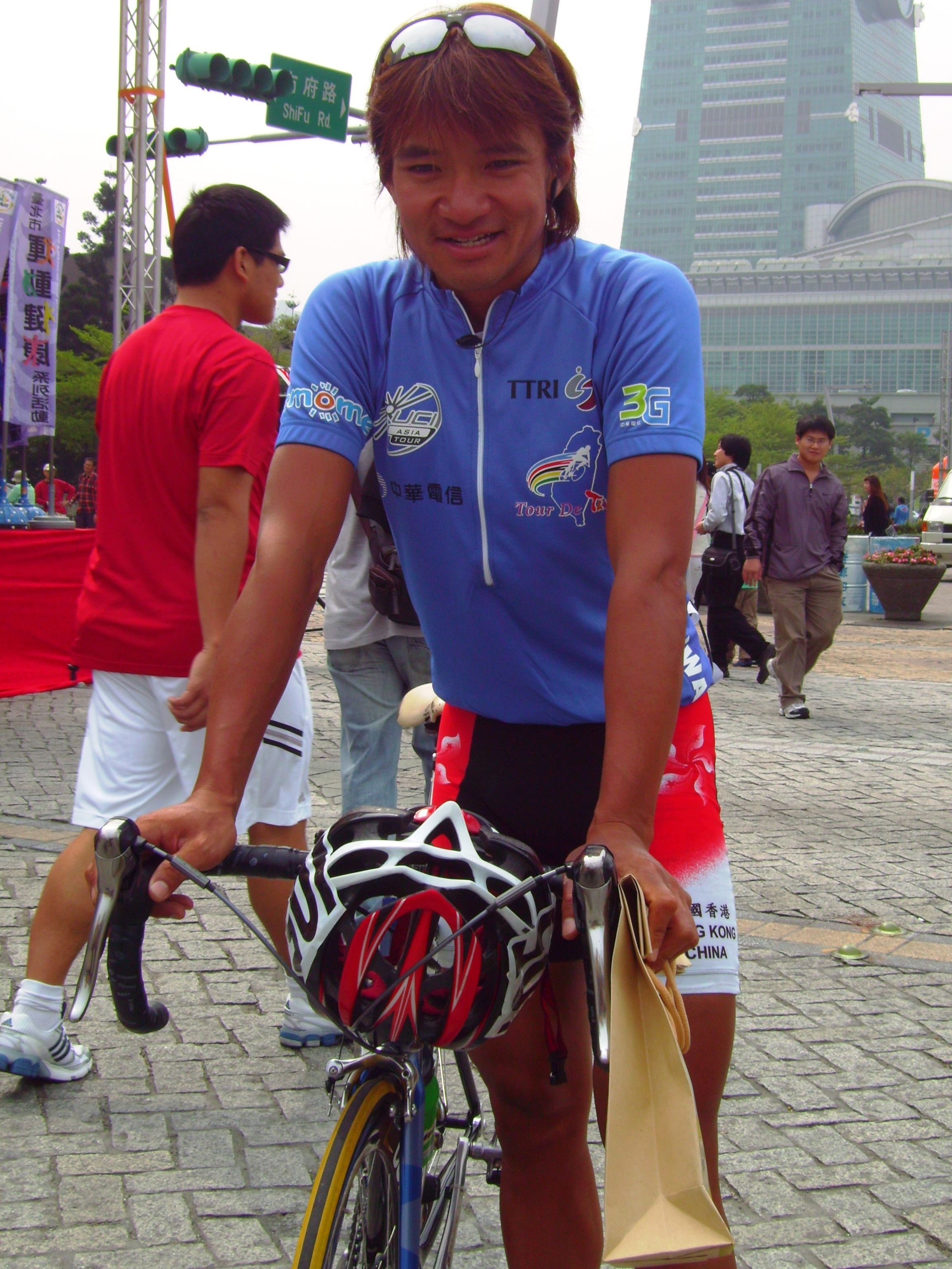 Wong Kam Po, a famous Hong Kong cyclist.